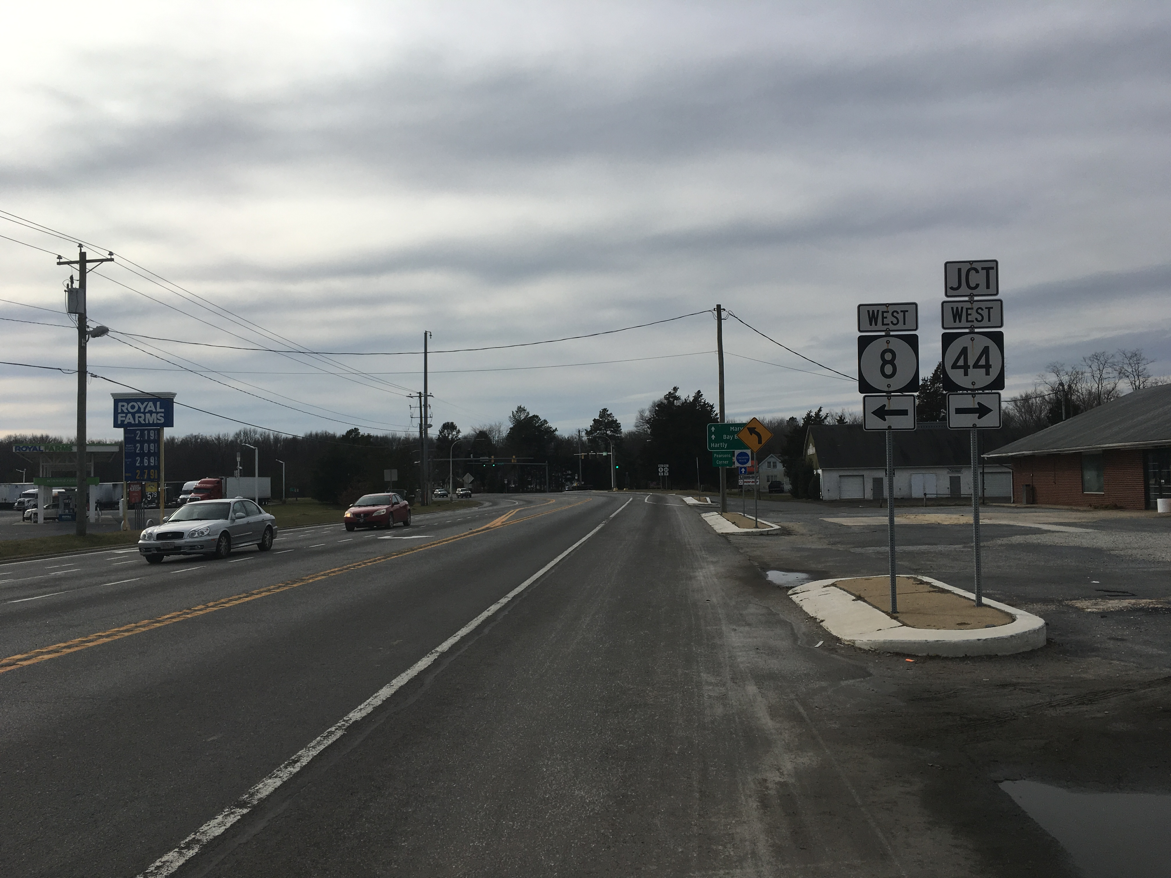 Westbound Delaware Route 8 (Halltown Road) approaching the intersection with Delaware Route 44 (Hartly Road) in Pearsons Corner, Delaware